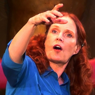 Ann Morrison performing Linda Lovely Goes To Broadway at American Stage in St. Pete FL